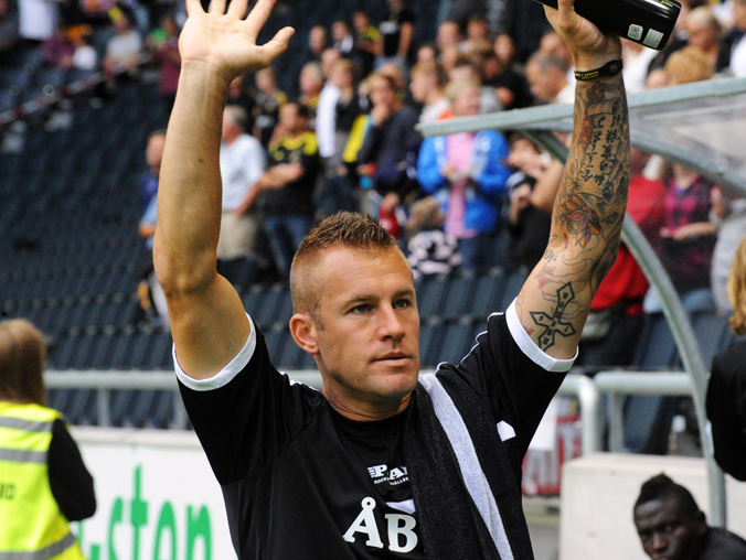 Lee Baxter